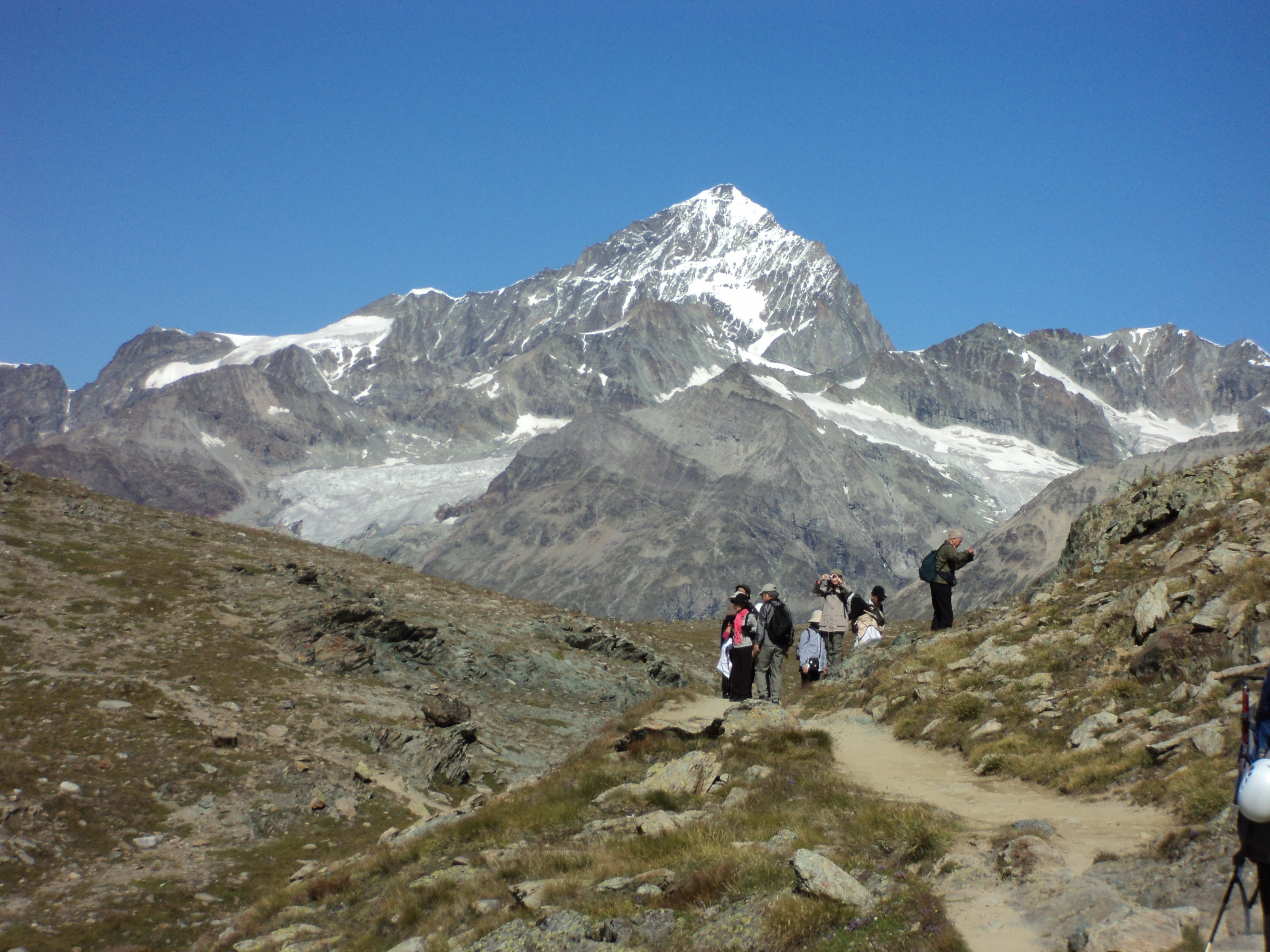 Dent Blanche from Rotenboden